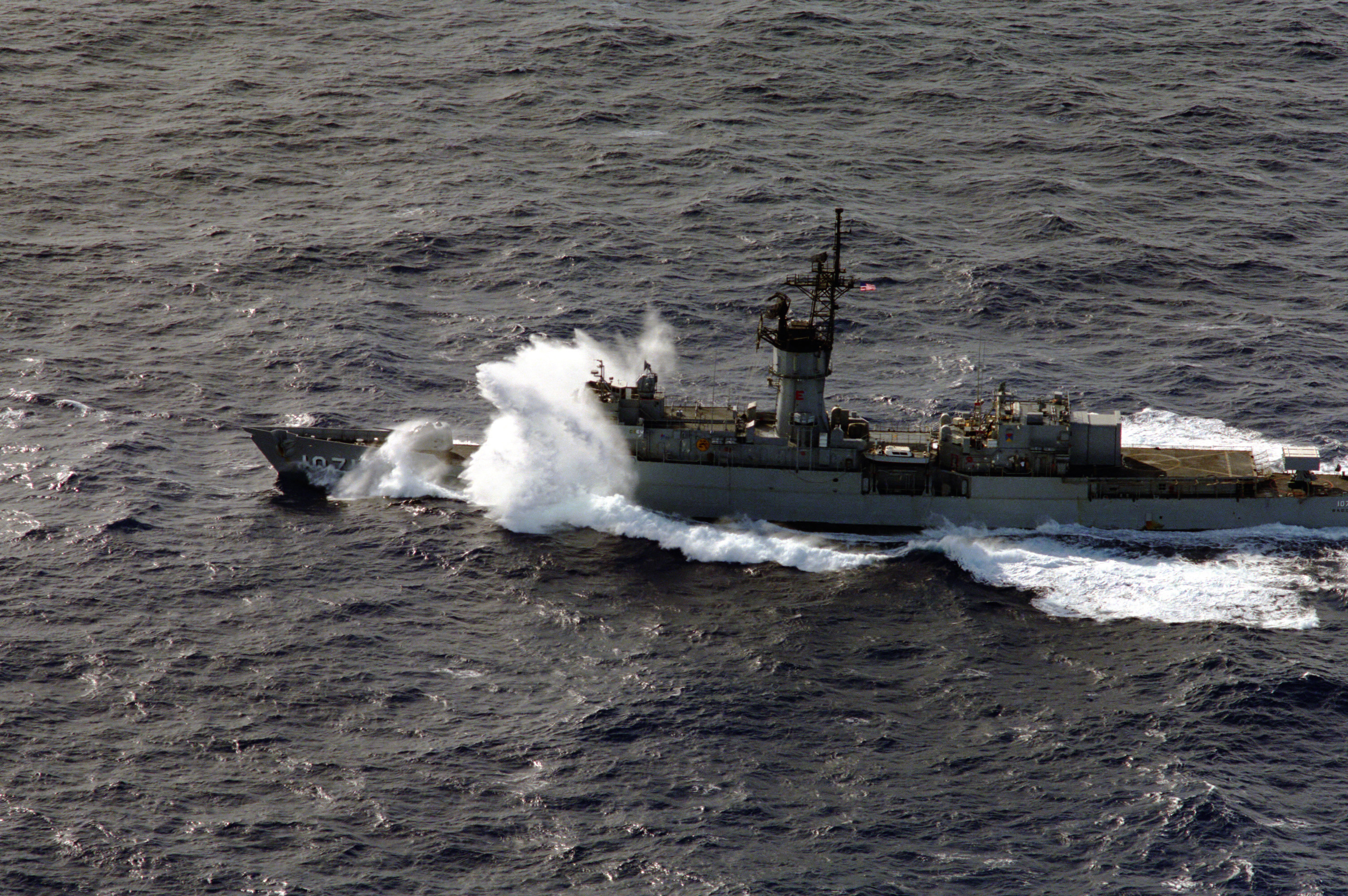 An aerial port beam view of the frigate USS BADGER (FF 1071) underway in heavy seas.